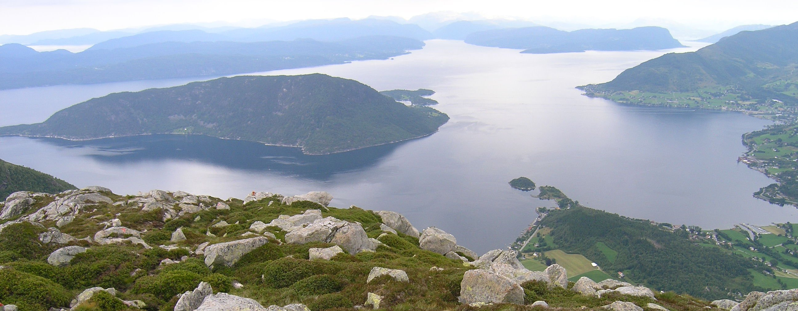 Kvinnheradsfjorden from Solfjellet